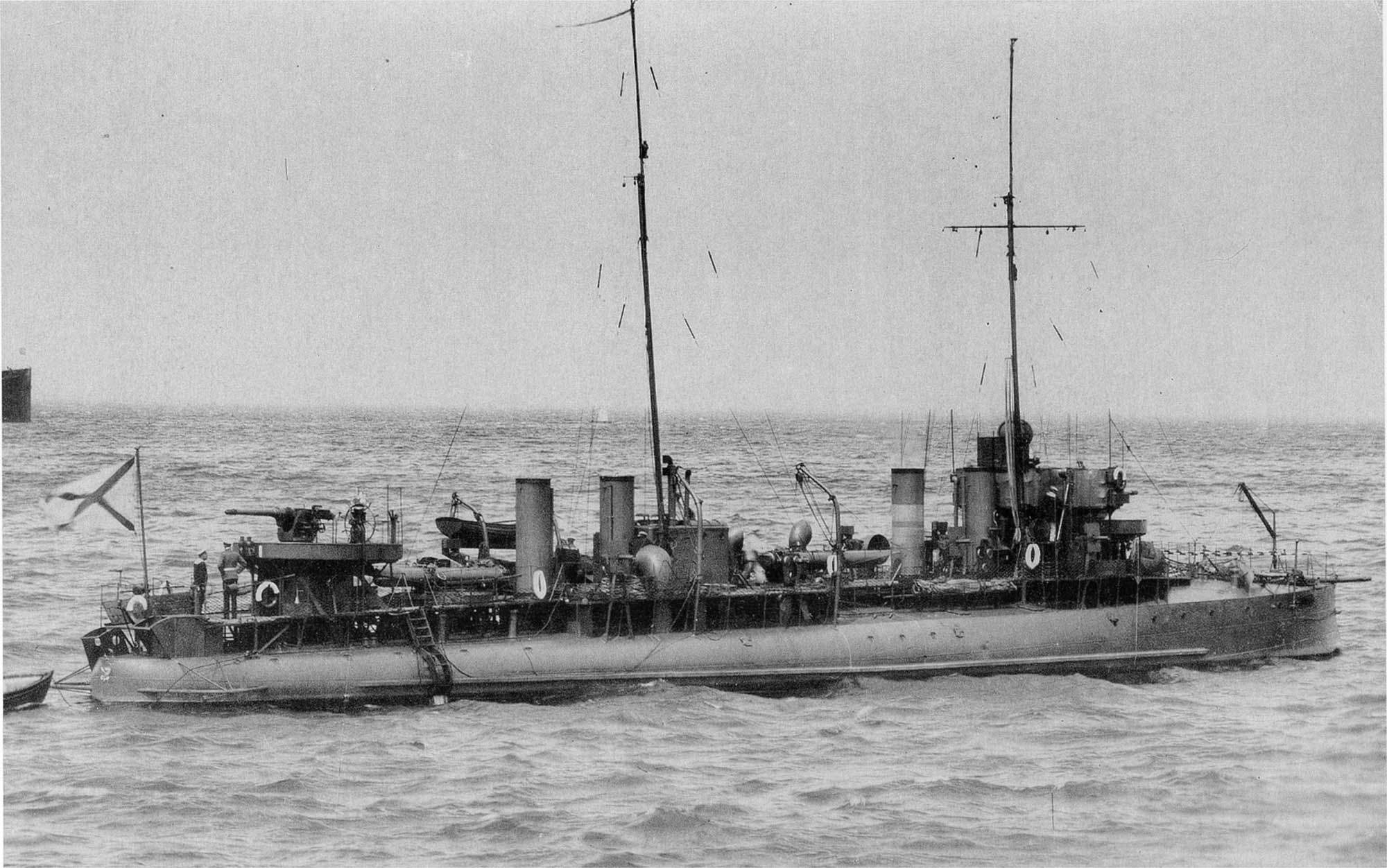 Imperial Russian destroyer Molodetskiy in Reval.